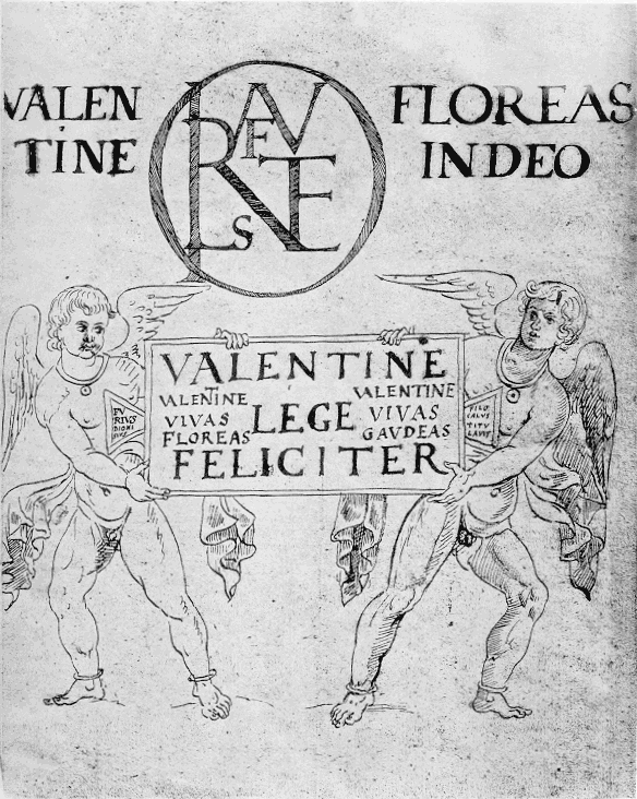 Title page & Dedication of the Chronography of 354 copy of 1620, of copy c800 of original of 354 Full info on site